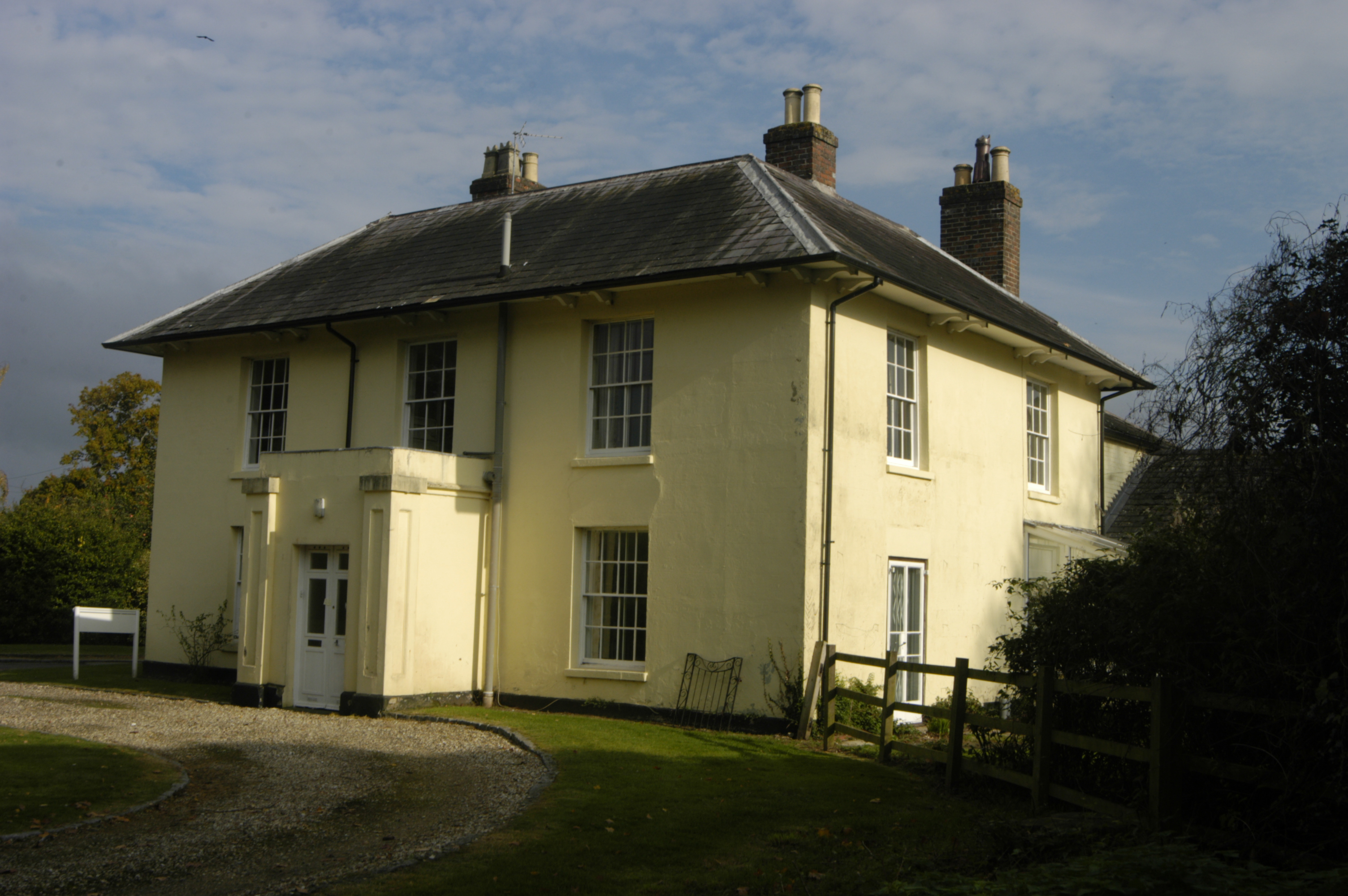 Photo (by me, R. de Salis, Rodolph (talk)) of Warren Lodge, Wash Common, Newbury, Berkshire. (said to have been built circa 1858, but looks earlier more like 1810) in 2015.